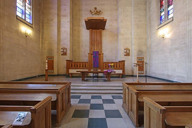 The Dutch Church, Austin Friars, London EC2 - Chancel